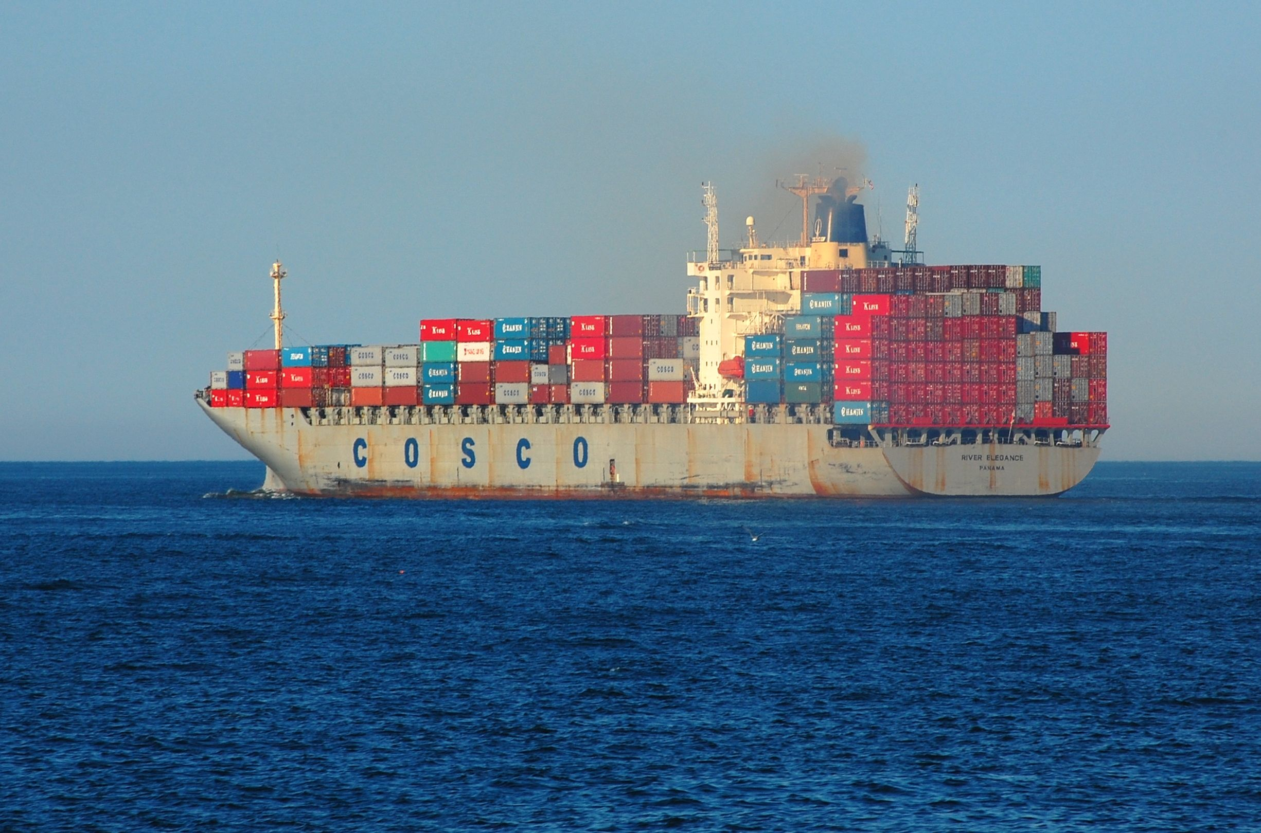 The "River Elegance," A COSCO container ship, sails from Boston Harbor. COSCO is a state-owned Chinese shipping company.